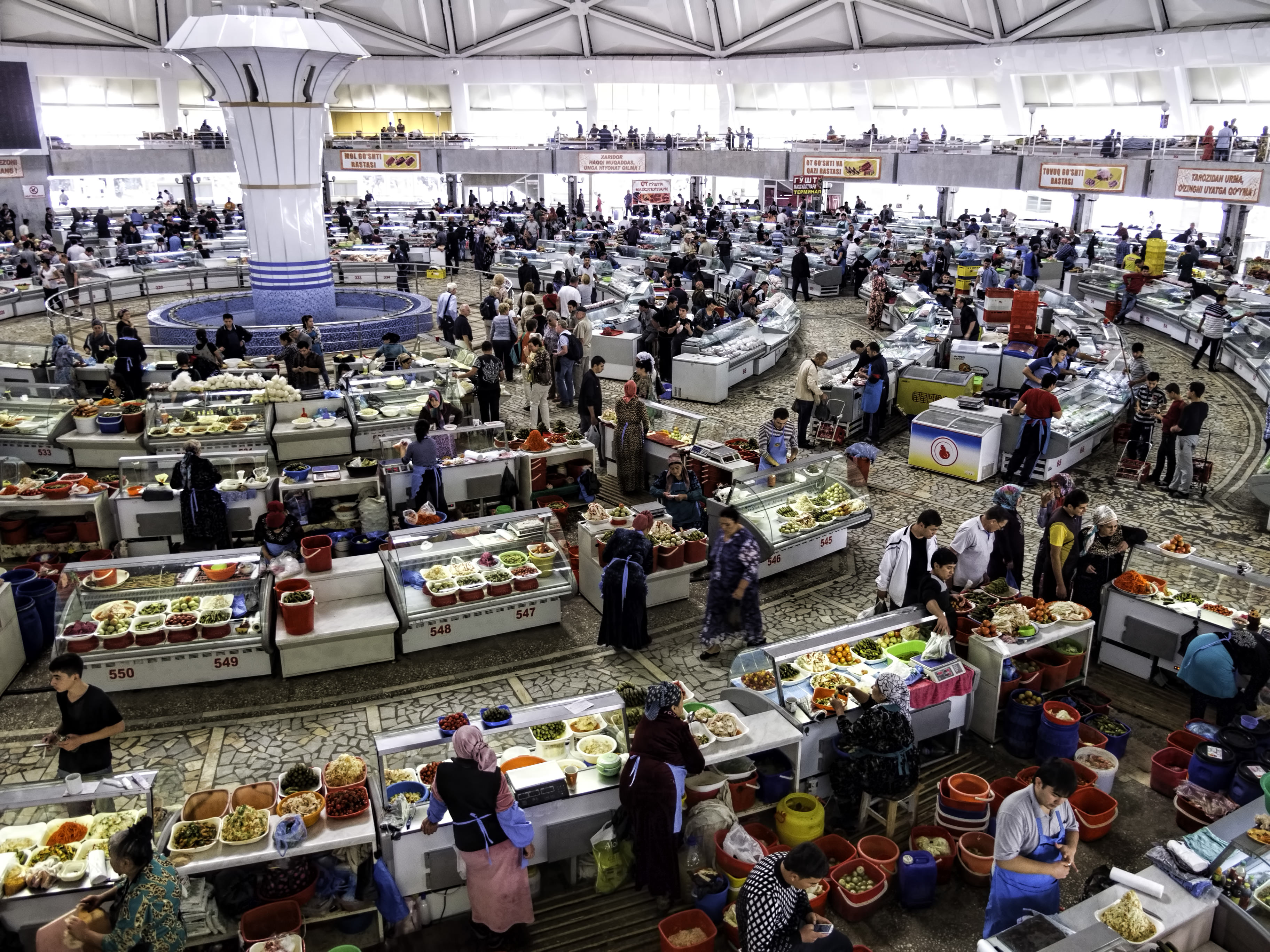 The selling area under the giant dome of the Chorsu Bazaar includes a mezzanine level.